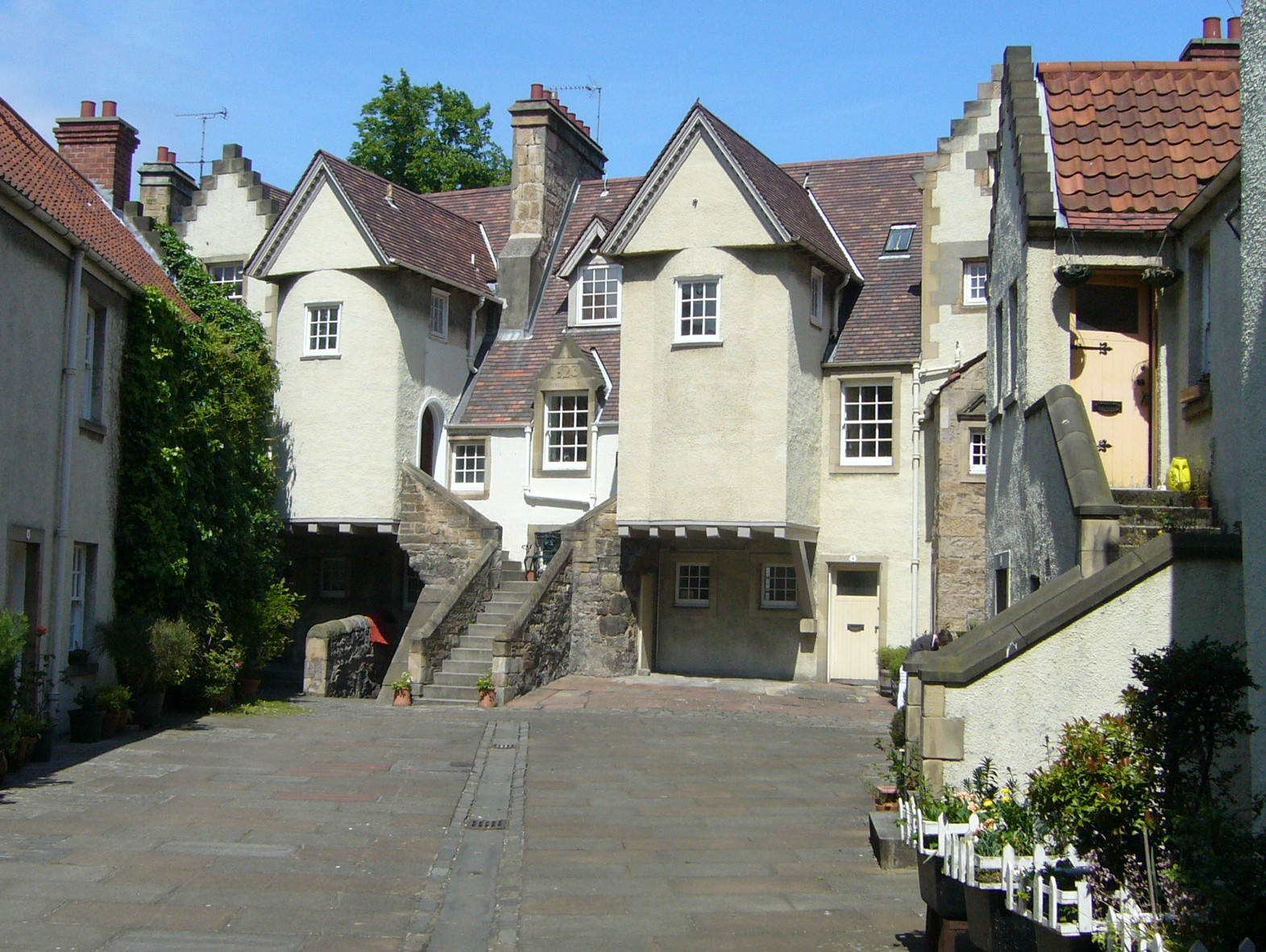 In the 18th century, the main building was the White Horse Inn. It has been conjectured that the inn sign may have depicted the White Horse of Hanover.